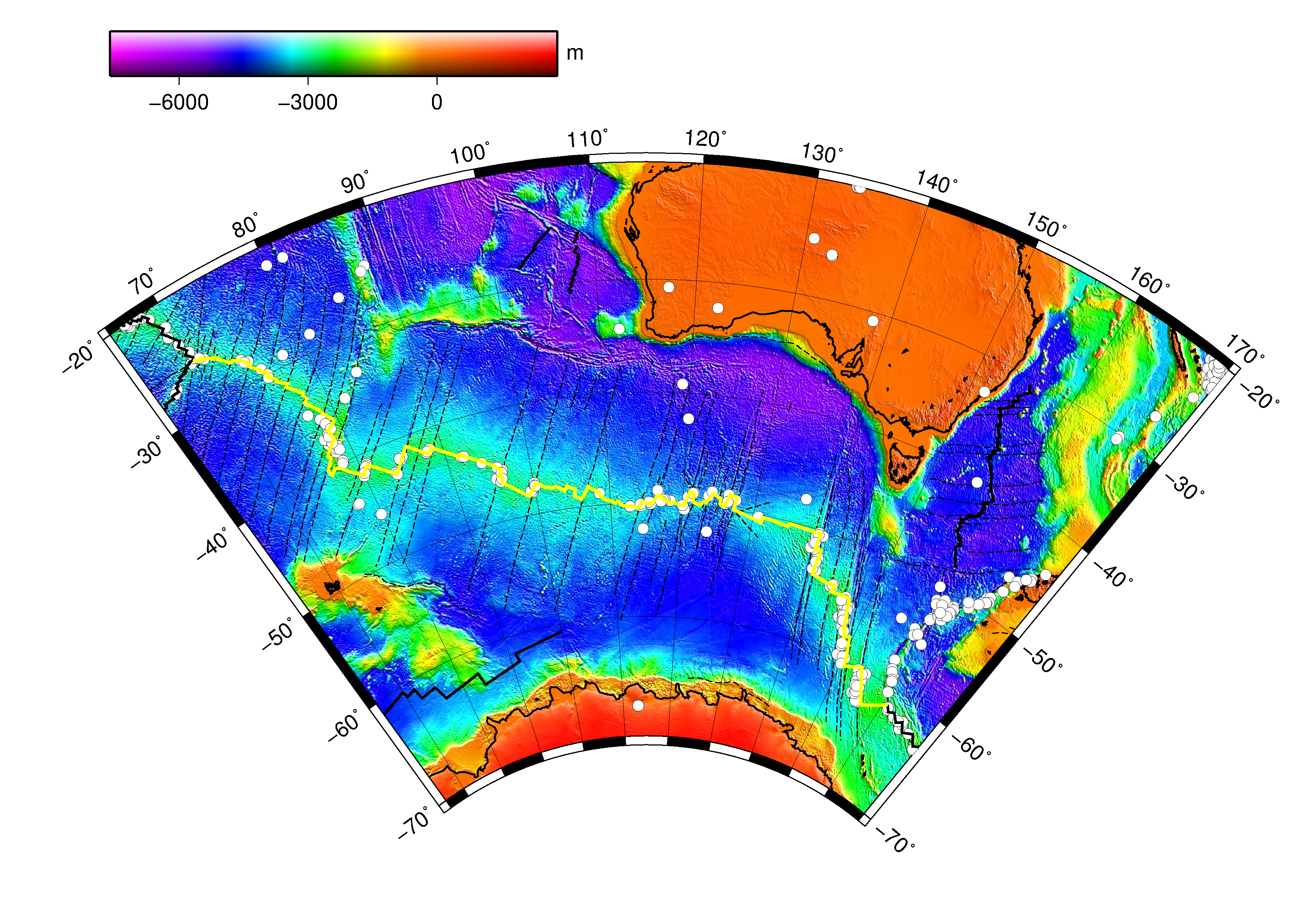 South East Indian Ridge (yellow line), with earthquake epicenters (white circles), fracture zones and seafloor topography. Made with GMT, lambert projection